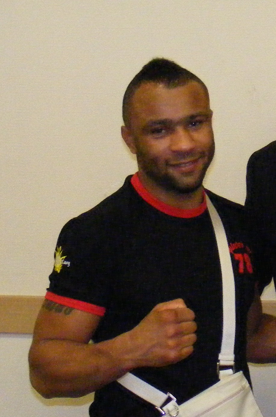 Alviar Lima, at Ring Masters Olympia Press Conferences, Istanbul, Turkey